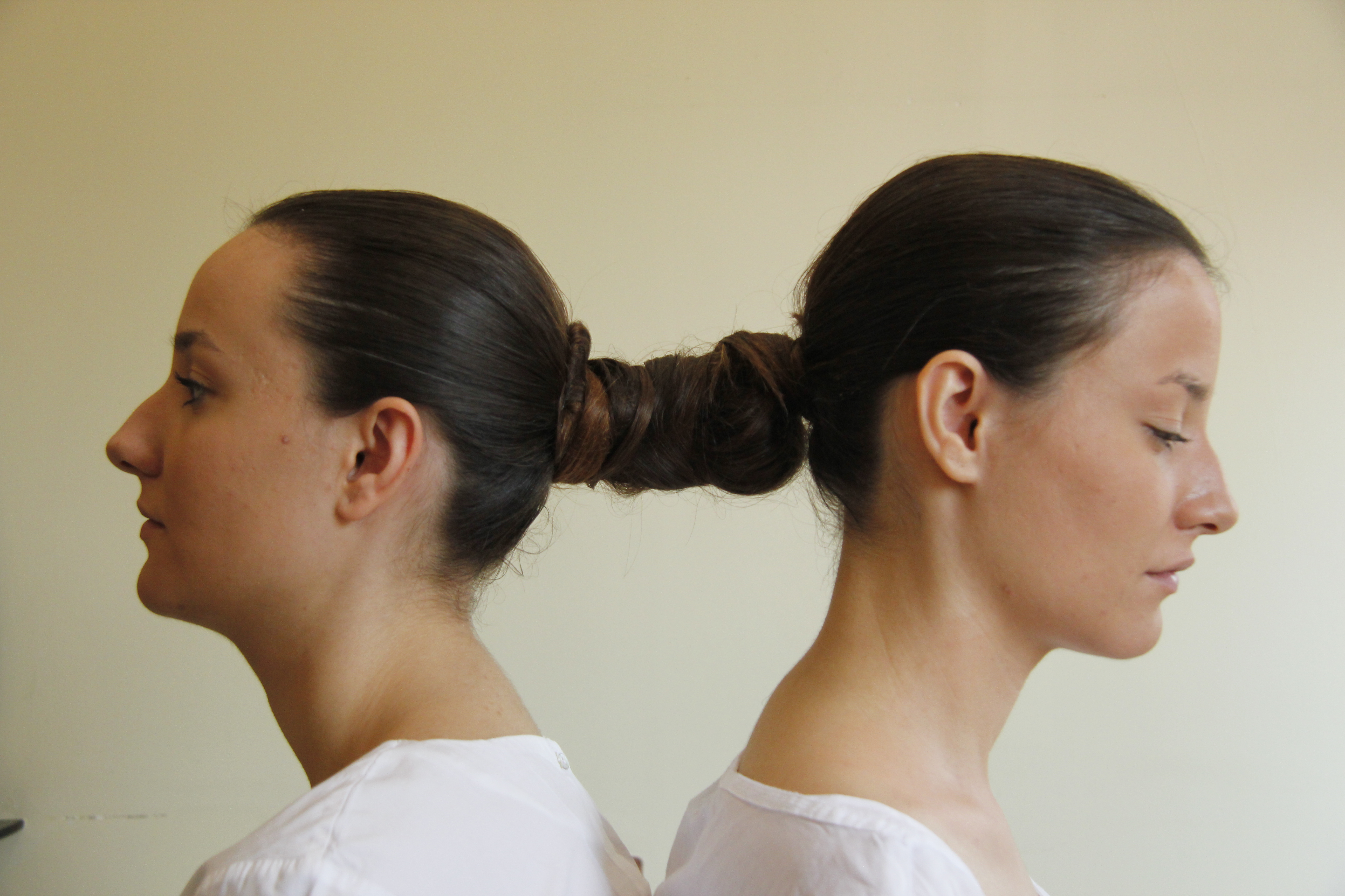 Genco Gulan's Twin Project, 2011. Live performance by Yeliz and Deniz Celebi, identical twin sisters, with a reference to Marina Abramovic and Ulay's "Relation in Time" (1977/2010).